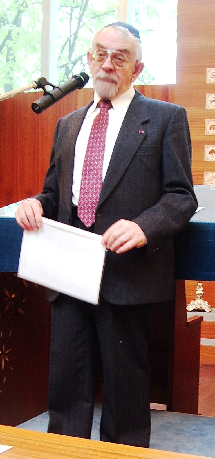 Kalle Kasemaa (born 1942) is Estonian theolog.